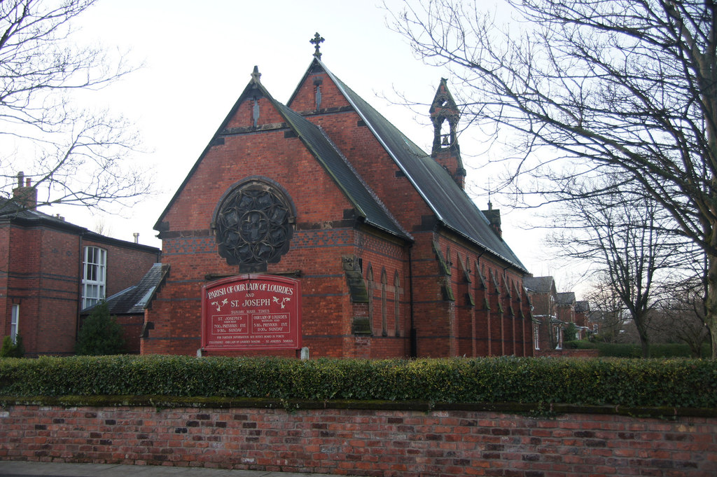 Photograph of St Joseph's Church, Birkdale, Southport, Merseyside